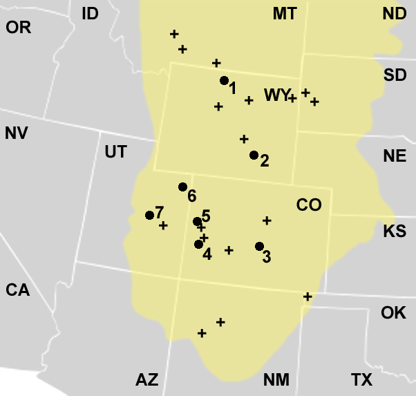 Map of Morrison Formation allosaur quarry locations made using Blank US Map.svg as a base, with localities after Turner and Peterson, 1999. In-image caption removed for interlanguage use. Image key: The general extent of the Morrison Formation has been overlaid in yellow. Historically or otherwise notable quarries where Allosaurus remains have been found include the numbered locations: “Big Al” quarry, Big Horn Co., WY. Como Bluff, Albany Co., WY. Garden Park/Cañon City, Fremont Co., CO. Dry Mesa Quarry, Delta Co., CO. Grand Junction/Fruita, Mesa Co., CO. Dinosaur National Monument West, Uintah Co., UT. Cleveland-Lloyd Dinosaur Quarry, Emery Co., UT. Other locations where Allosaurus has been found are marked with a "+".